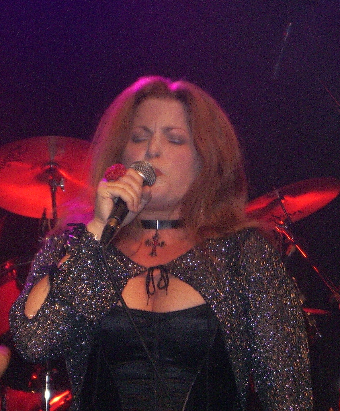 Jenna Sanz-Agero performing in London with Vixen, 3rd June 2005